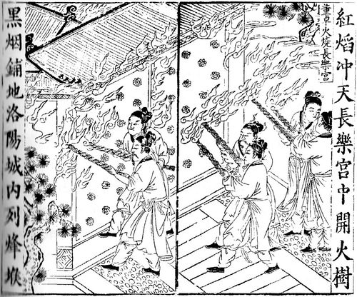 Dong Zhuo sets ablaze Luoyang in 191 and reallocates the Han capital to Chang'an.